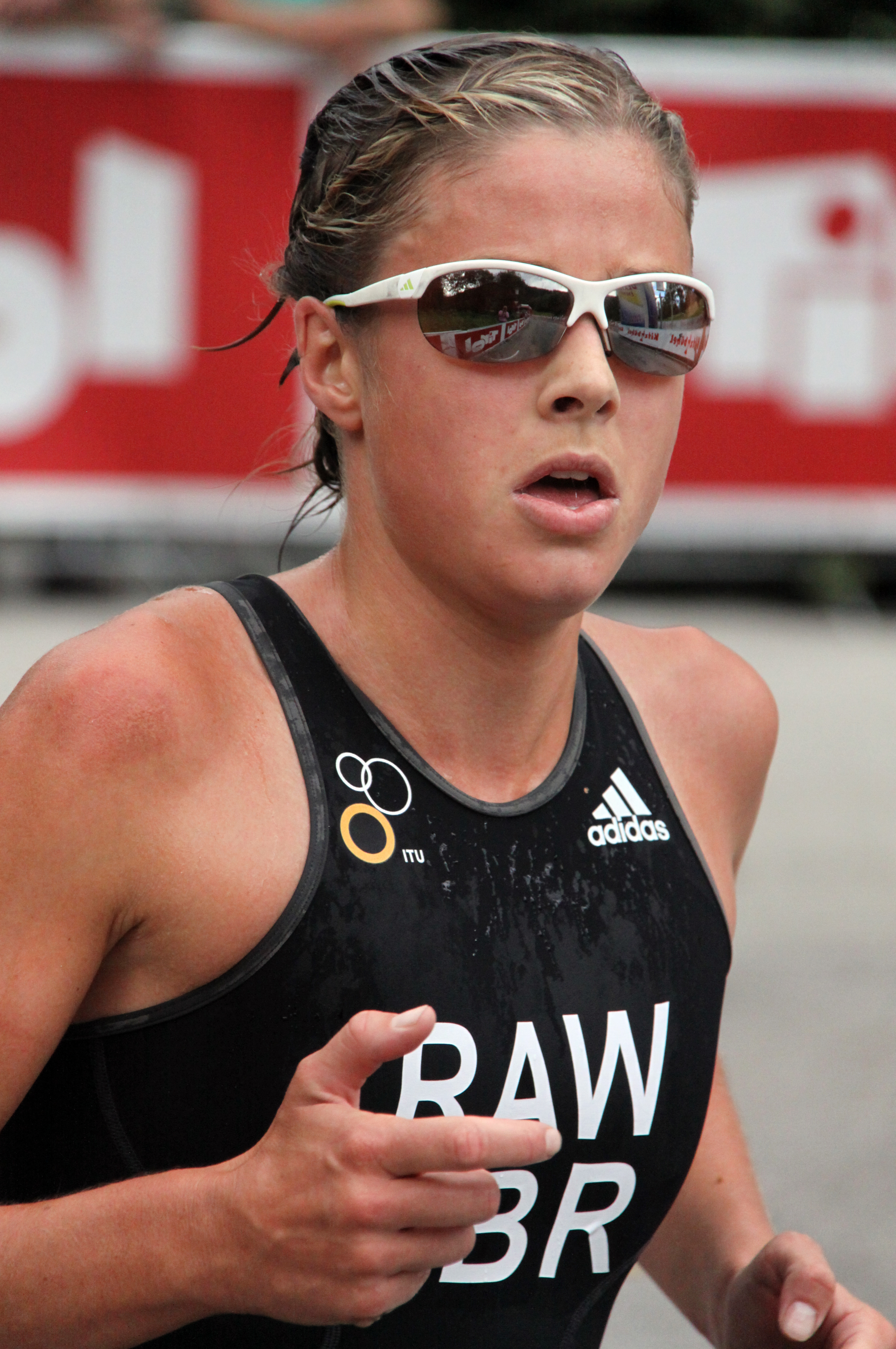 Vanessa Raw at the World Championship Series Triathlon in Kitzbuhel (Kitzbühel), 2010.